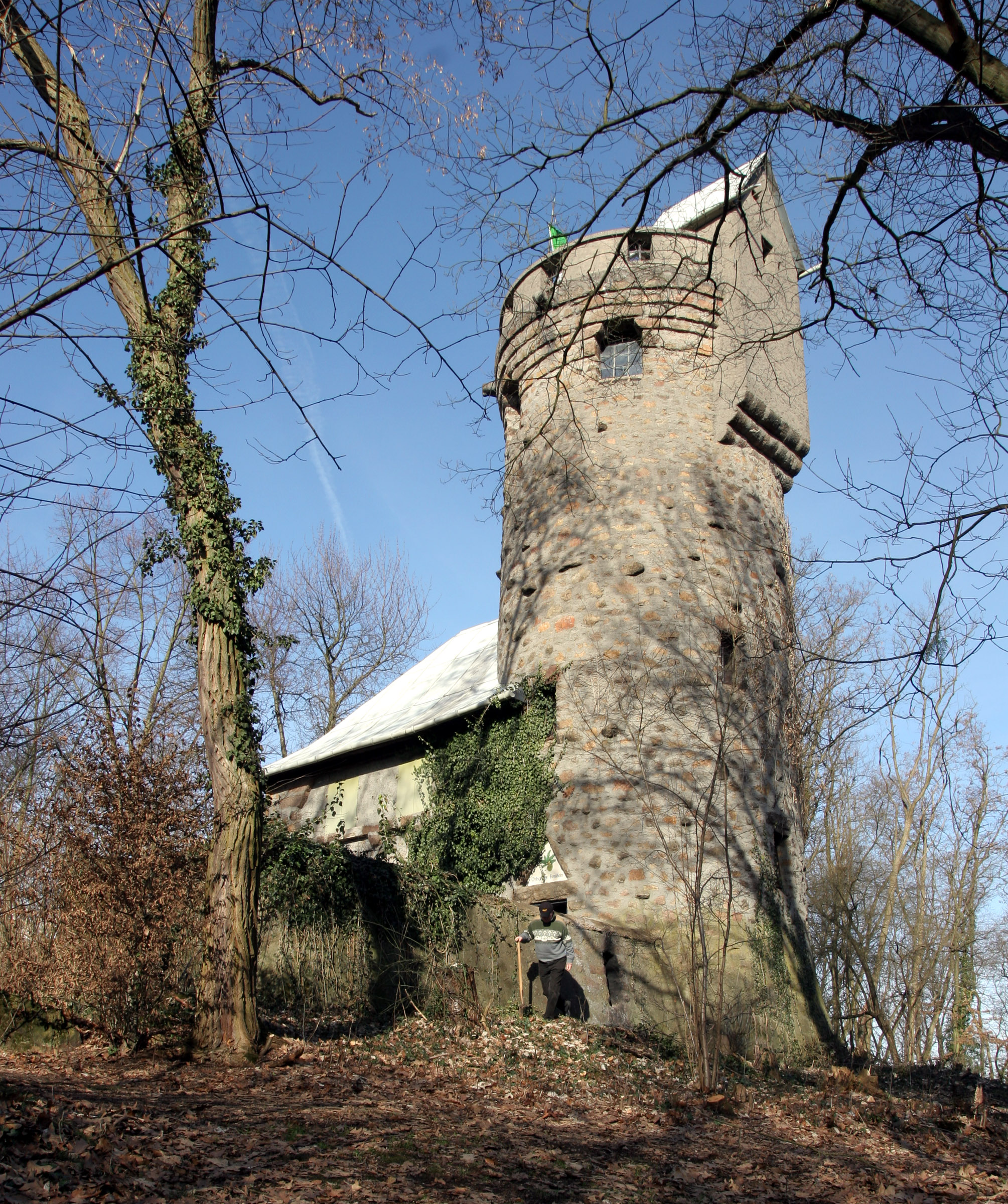 Bismarck tower at the top of the Hemsberg in Bensheim (Hesse, Germany)